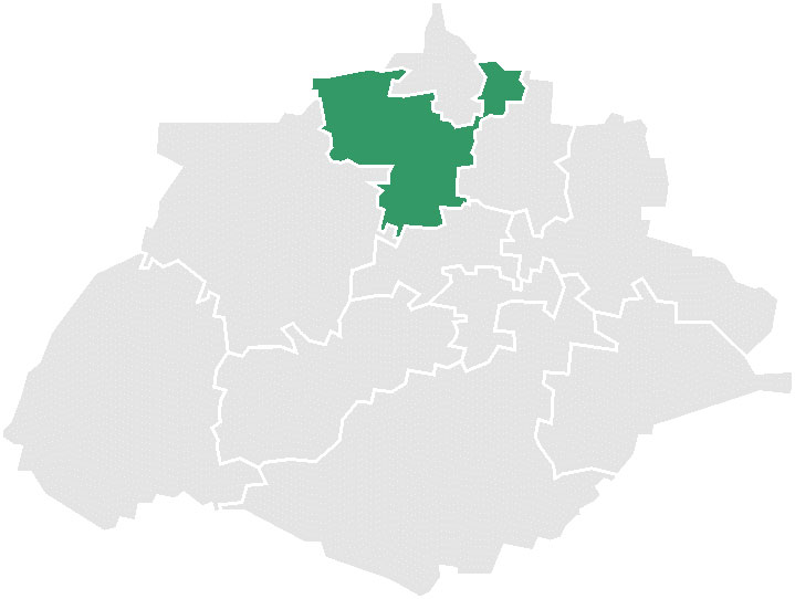 Map of the Municipalty of Rincón de Romos in the State of Aguascalientes, México.